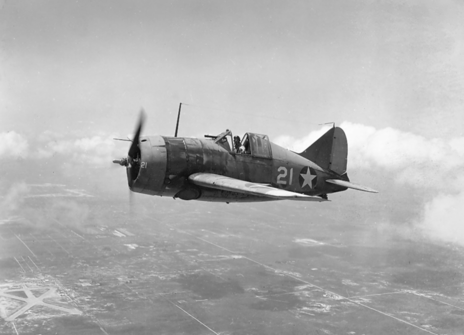 A U.S. Navy Brewster F2A-3 fighter pictured during a training flight from Naval Air Station Miami, Florida (USA), on 2 August 1942. The plane was piloted by LCdr. Joseph C. Clifton.